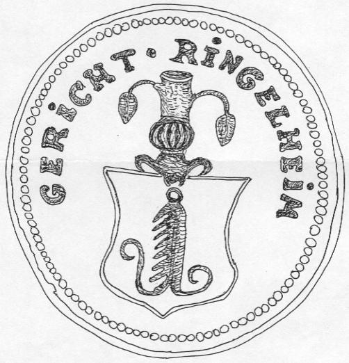 patrimonial court of the estate Ringelheim